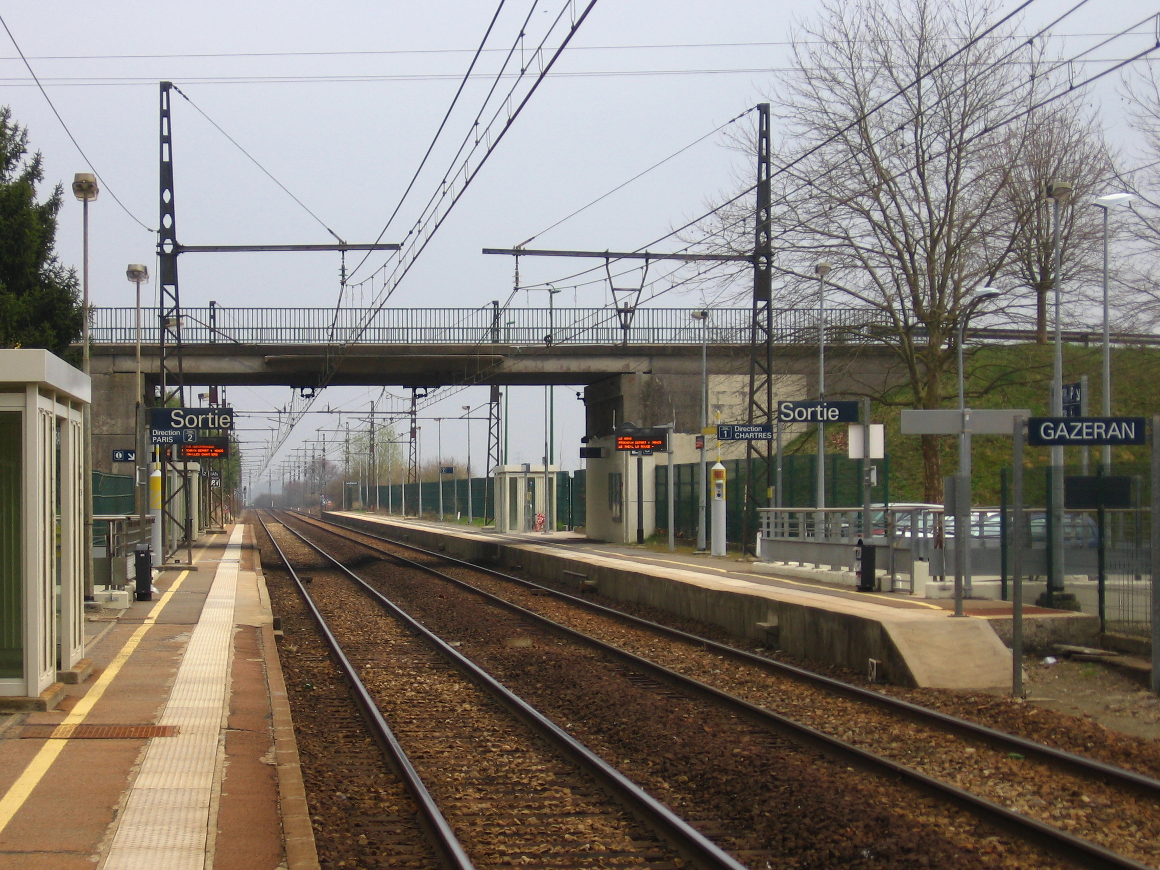 Gazeran station